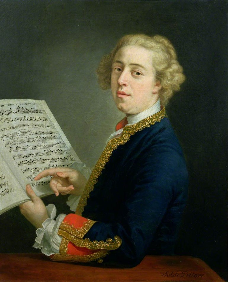 Francesco Geminiani (1687-1762) was an Italian violinist, composer, and music theorist.